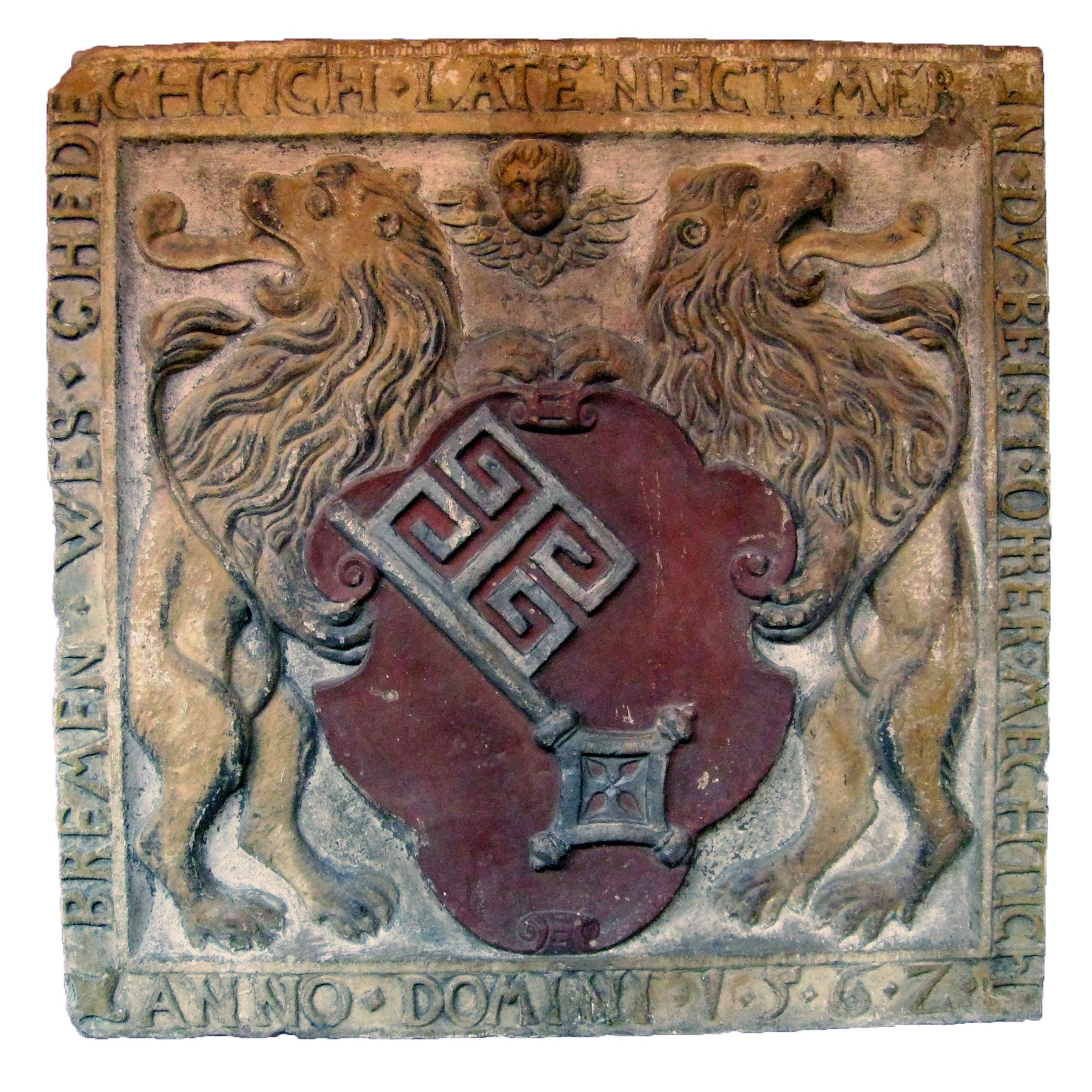 Coat of arms of the city of Bremen (Germany) from the year 1562, sandstone formerly painted and with gold-plated letters. Made under the government of mayor Daniel von Büren by the sculptor Szervas and installed at the Herdentor (“Flock gate”). Nowadays on display in the Focke-Museum in Bremen. The text at the border of the emblem says: “Bremen wes ghedechtich late neict mer in Dv beist öhrer mechtich. Anno Domimi 1562” (“Bremen be deliberate, don’t let more in then you can cope with. Anno Domini 1562”).